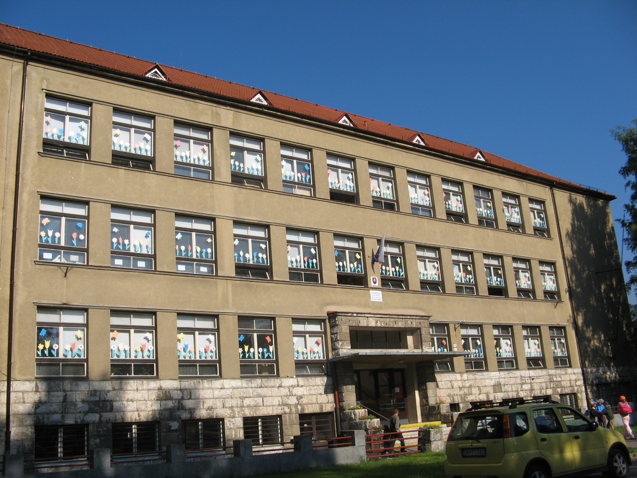 Primary school in Dolny Kubin